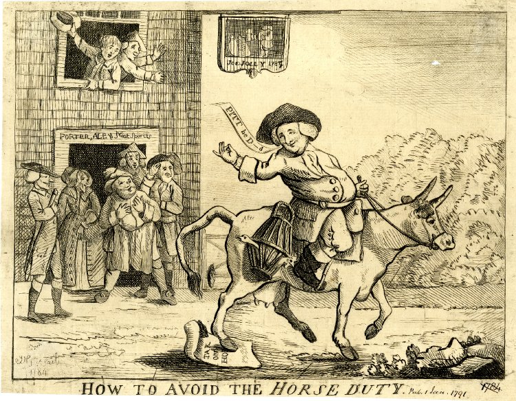 'How to avoid the horse duty' - satirical print by John Nixon. 'How to avoid the horse duty' - satirical print by John Nixon. "A stout farmer rides (left to right) past an inn on a cow. The cow befouls and tramples on a paper inscribed 'Tax on Ho[rses]'. The farmer looks triumphantly over his right shoulder at a group of spectators standing at the door of the inn, and snaps his fingers, saying, "Pitt be D------d". A basket containing poultry hangs from the saddle. Part of the inn is on the left of the design, its sign is a stout man holding a foaming tankard gazing at three sacks, inscribed 'Joe Jolly 1784' (a '7' appears to have been etched over the '4'). Five amused spectators stand by the door; from a window above two men applaud the farmer. 1784 Etching". Curator's comment "(Description and comment from M.Dorothy George, 'Catalogue of Political and Personal Satires in the British Museum', VI, 1938) Pitt's budget of 1784 imposed an annual tax of 10s. on saddle- and carriage-horses, exempting those used for trade and agriculture; see BMSats 6630, 6914. On 27 Nov. 1784 one Jonathan Thatcher rode his cow to and from the market of Stockport in protest against the horse-tax, Chambers, 'Book of Days', ii. 627, where there is a copy of a similar print." See also this similar print with curator comment: "For earlier states see 1988,0514.25 and 1988,0514.22. Satire on a recently introduced tax on horse-ownership. A separate strip of paper pasted below the print records: "A farmer in Cheshire, who kept a good team of horses, but had not entered one as a hackney or saddle horse, having occasion to go to Stockport market on Friday, actually saddled a cow, and rode her in triumph to and from the market, attended by a numerous concourse of spectators, who heartily enjoyed the joke - See Morning Herald of Friday Dec. 3, 1784"."